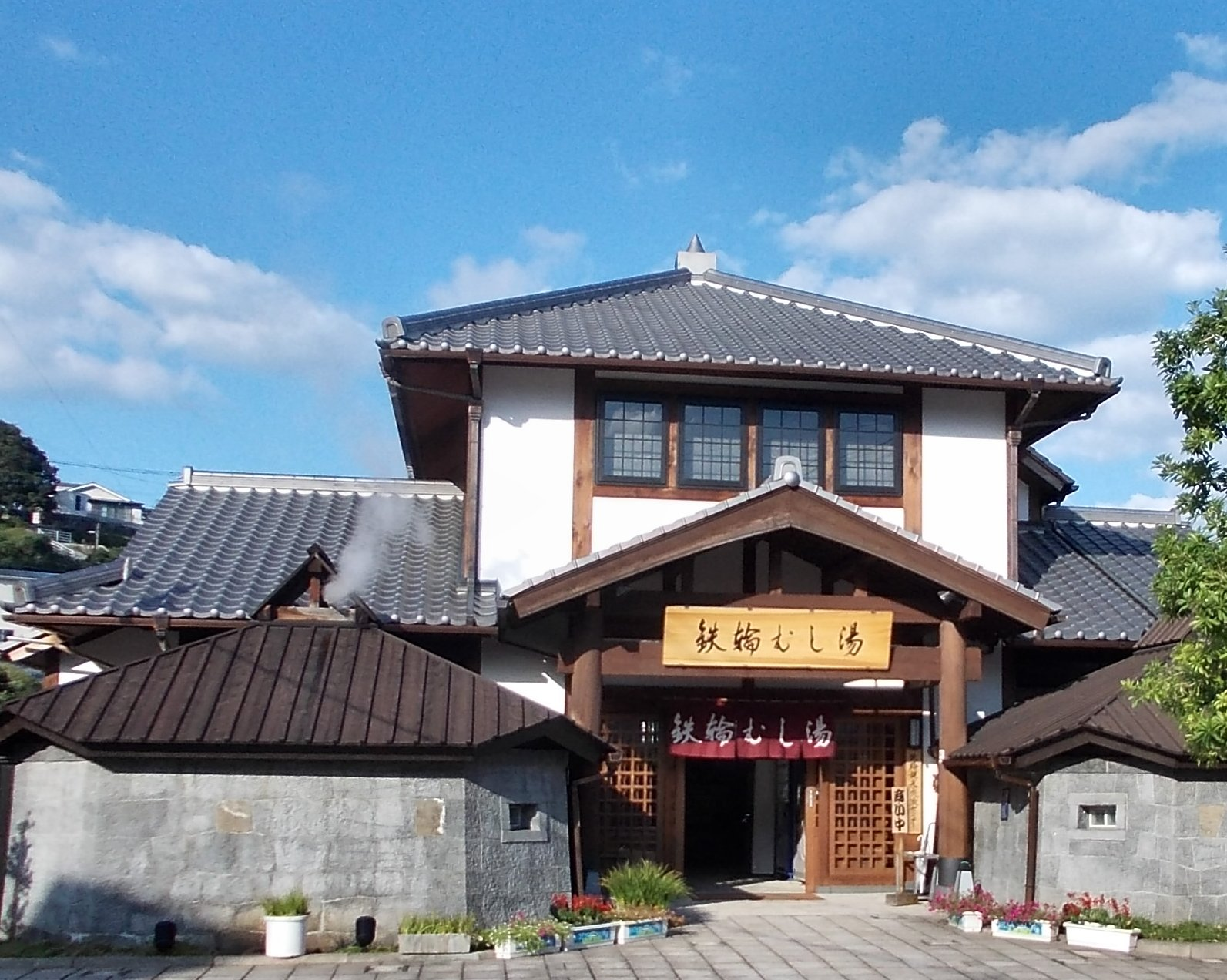 Kannawa Mushi-yu, a public bath in Kannawa Onsen, Beppu, Oita, Japan.